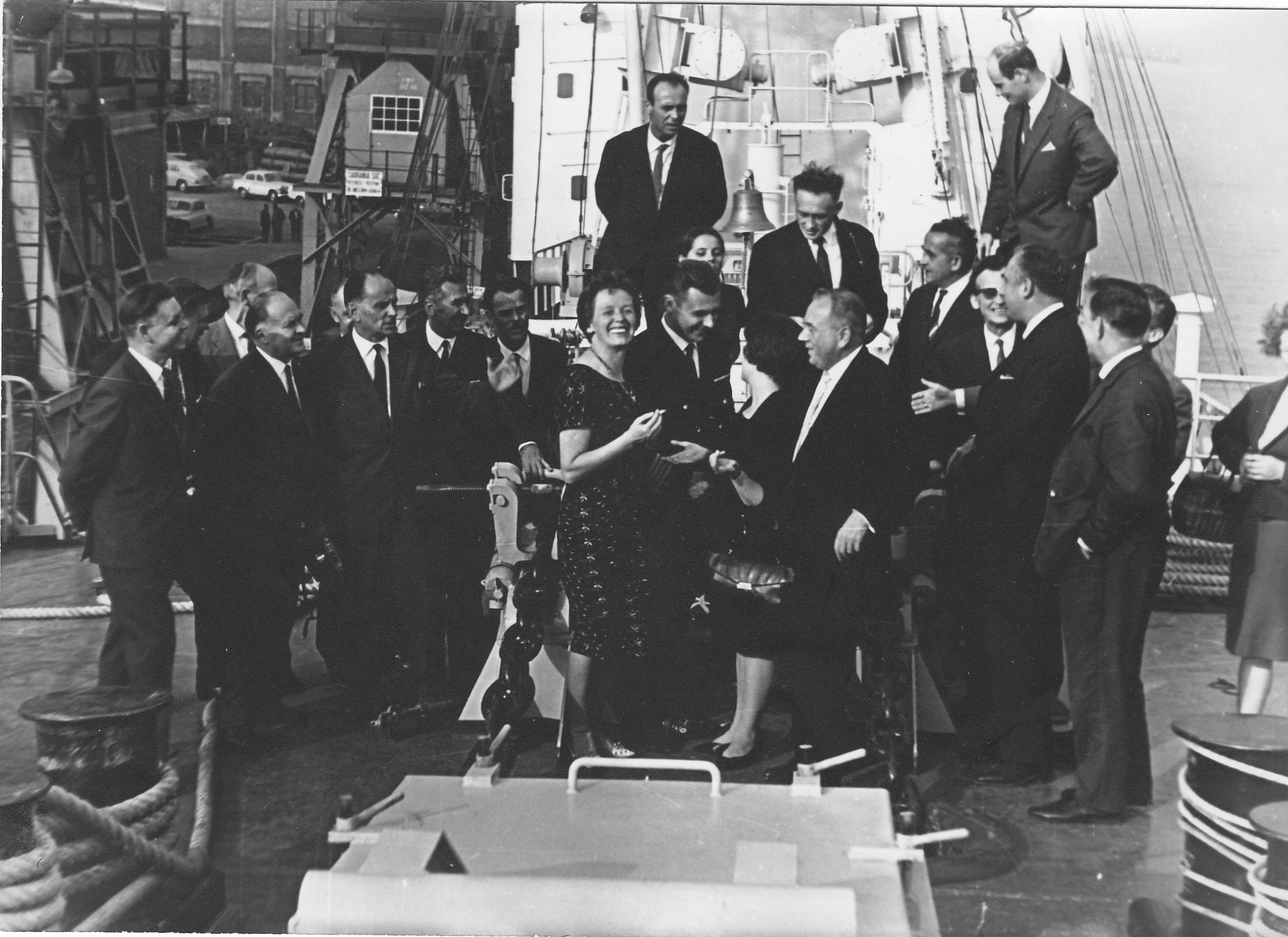 Launching MS Sanok